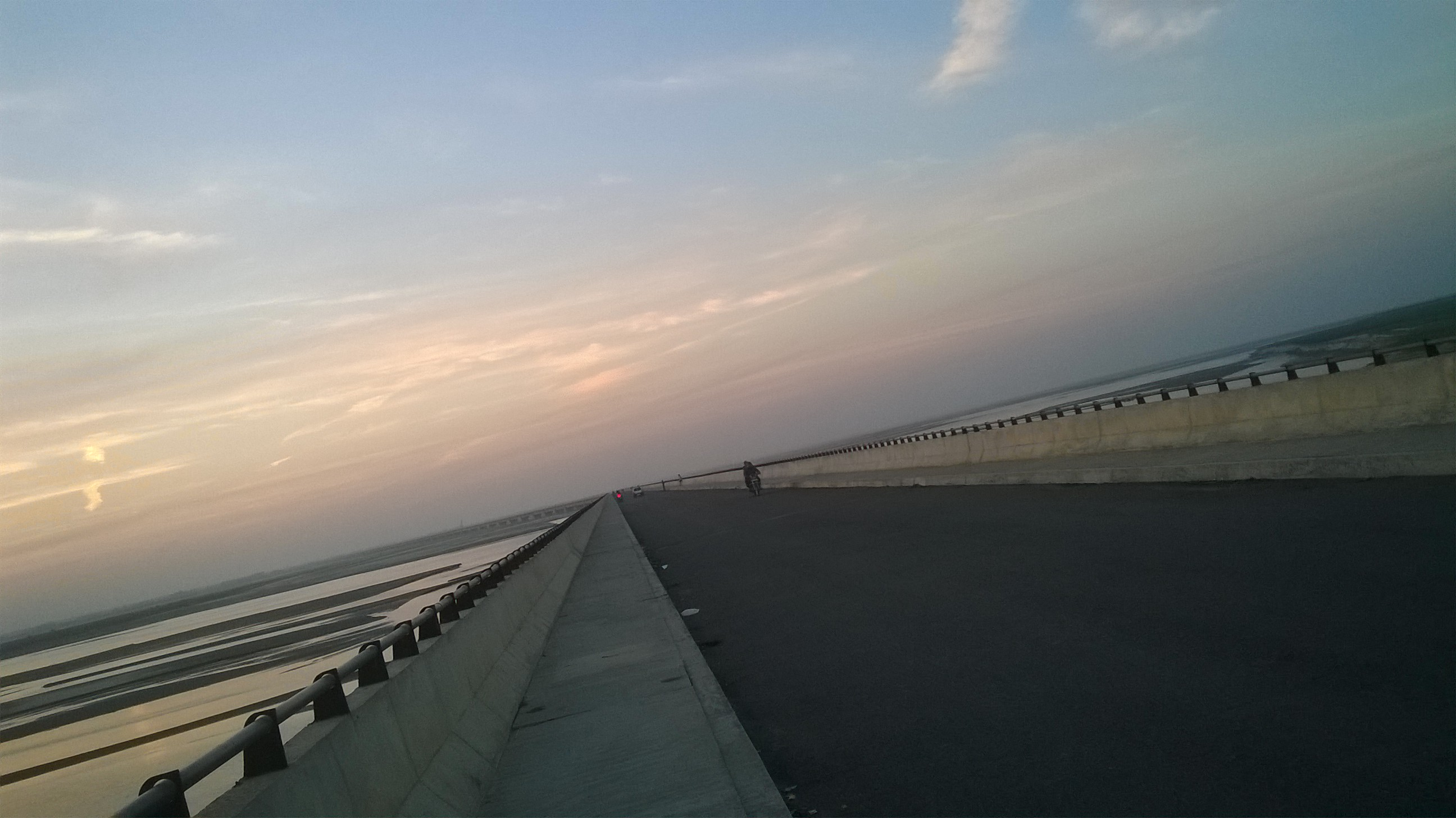 Chahlari Ghat Bridge by faranjuned